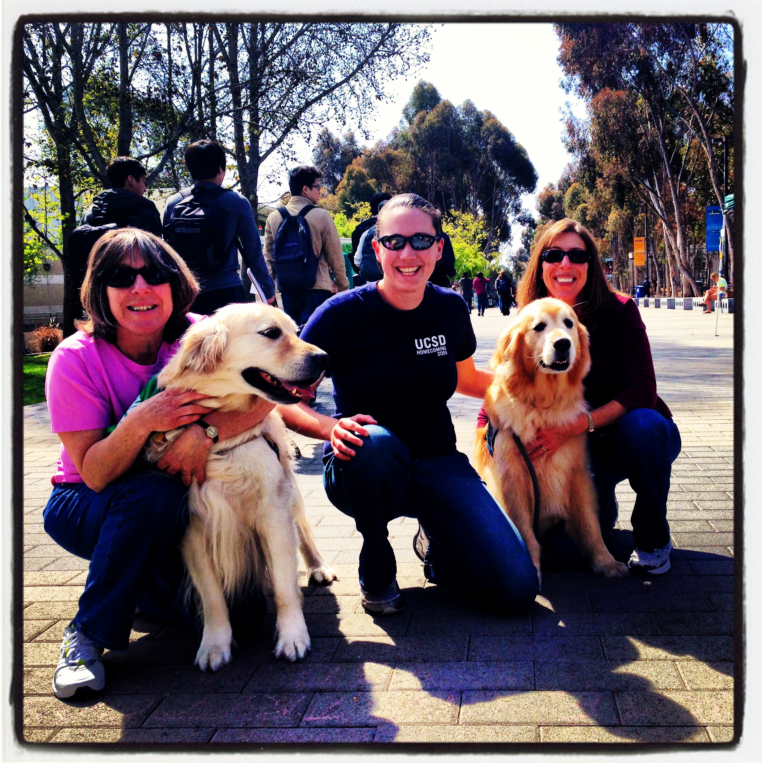 Barbara McKown & Izzy (Golden Retriever), Torrey Trust, and Sharon Franks & Wally (Golden Retriever)